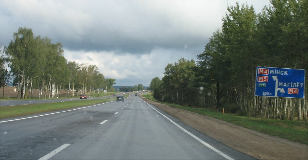 European highway E271 i.e. national highway M4 and M5 seen on way towards Minsk, before junction of M4 separates to the east. Location about 13 km southeast from Minsk Ring road M9 (in Minsk rajon, Minsk oblast, Belarus).